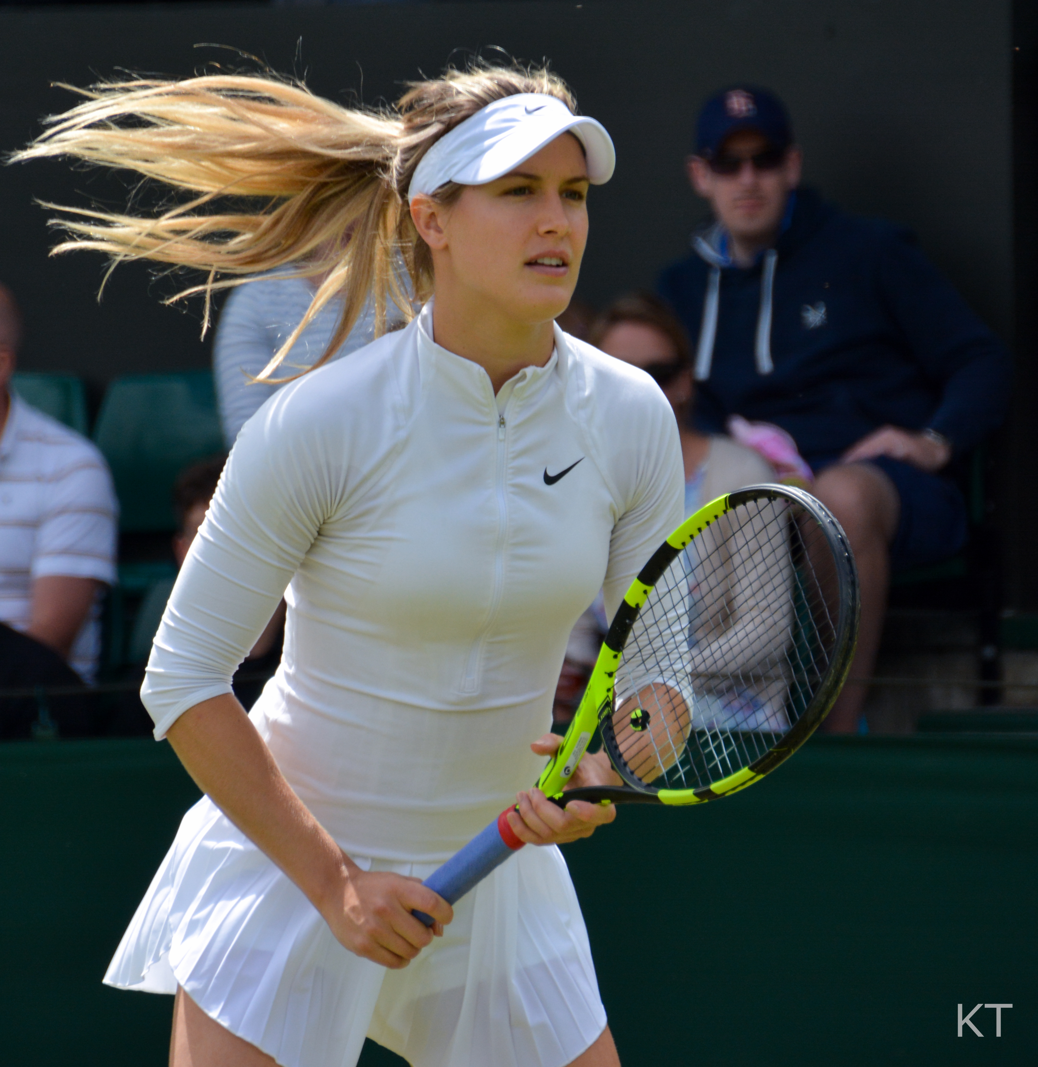 Middle Sunday of Wimbledon 2016.